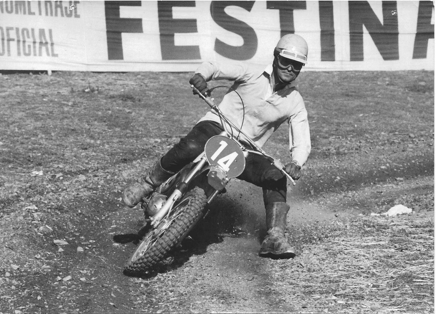 Oriol Puig Bultó on the Bultaco Métisse during a race of the 1966 Spanish Grand Prix of Motocross 250cc, held on March 27 at the Circuit de Santa Rosa, in Santa Coloma de Gramenet